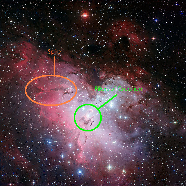 Famous positions in the Eagle Nebula. The Pillars of Creation is marked in green and the Spire is marked in orange